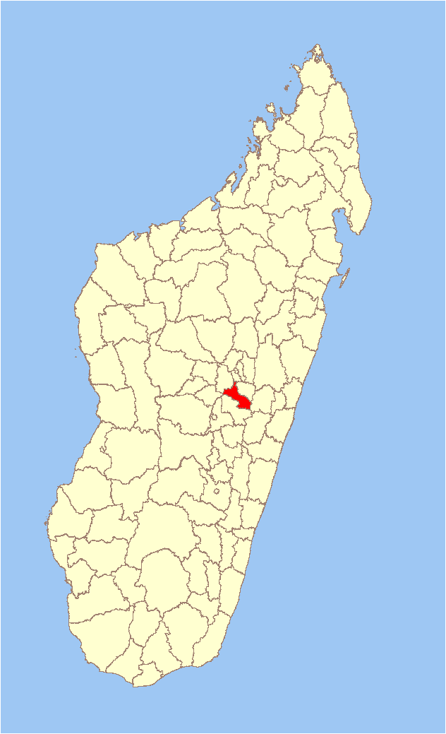 Map of Ambatolampy district